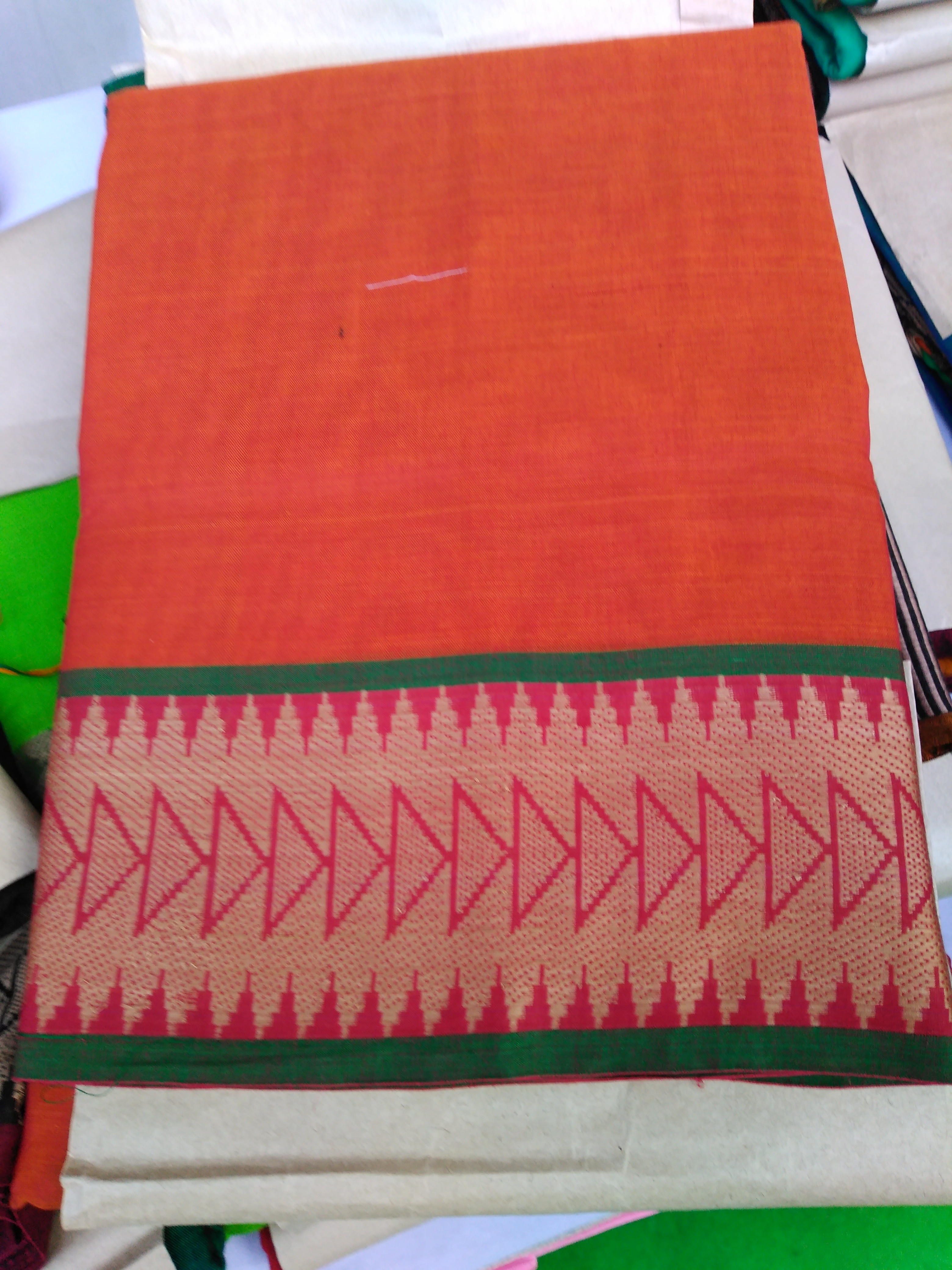 తెలుగు ప్రపంచ మహాసభల వద్ద దృశ్యాలు,వ్యక్తులు,సమావేశాలు